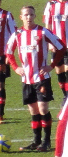 Adam Forshaw of Brentford FC during a match versus Chelsea FC in January 2013.